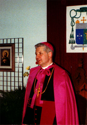 Bishop Daniel Dolan on the day of his episcopal consecration, November 30, 1993. This photograph was taken by James Reyes.